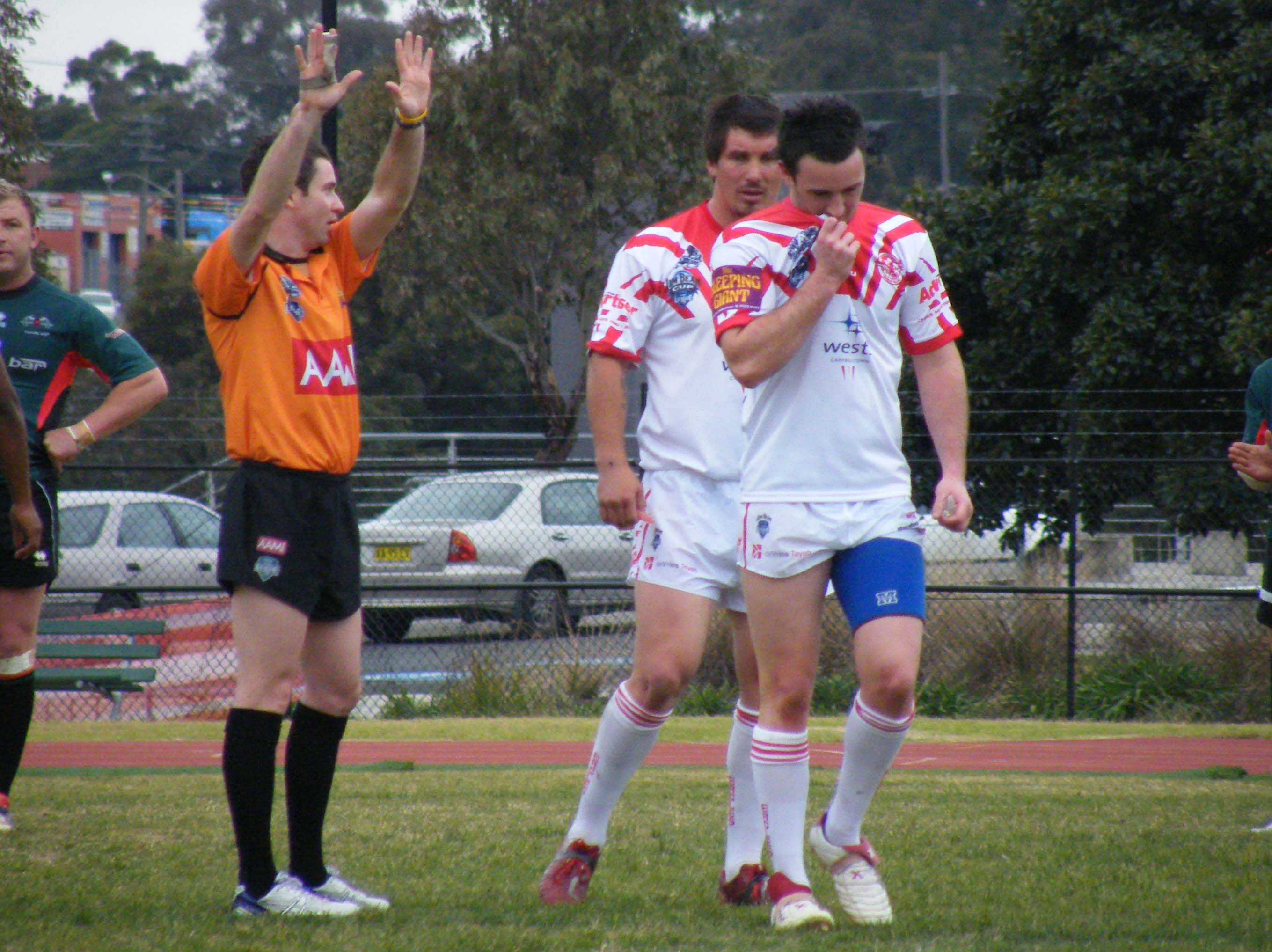 Unknown Campbelltown player is sin binned against Sydney Bulls. The referee signals with his hands up and fingers spread to represent 10 minutes off the field. In some competitions a yellow card is used to signal a sin bin.